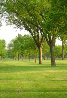 Greenway boulevard of Victory Memorial Parkway, Minneapolis, Minnesota, USA. These pictures were taken by Adam Backstrom with a Sony Cyber-Shot 5.0. They are free for anyone to use. Copyright (c) 2005 Adam Backstrom. Permission is granted to copy, distribute and/or modify this document under the terms of the GNU Free Documentation License, Version 1.2 or any later version published by the Free Software Foundation; with no Invariant Sections, no Front-Cover Texts, and no Back-Cover Texts. A copy of the license is included in the section entitled "GNU Free Documentation License".